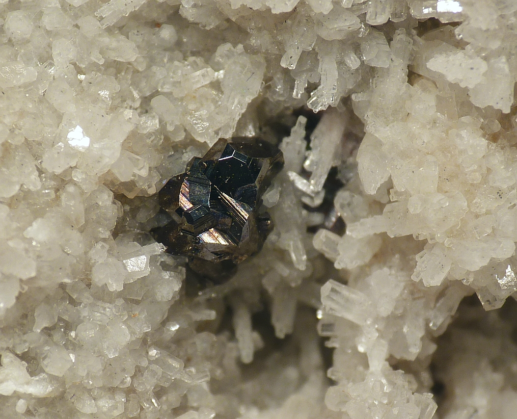 Diaphorite Locality: Neue Hoffnung Gottes Mine, Bräunsdorf, Freiberg District, Erzgebirge, Saxony, Germany Field of view 3 cm. Paul Bongaerts collection.